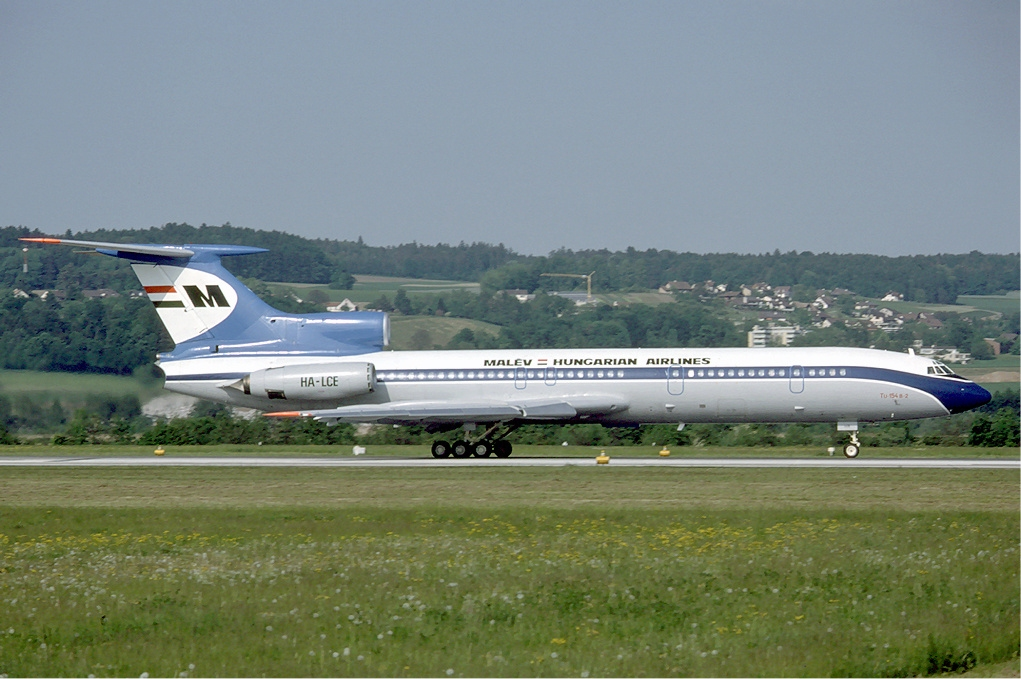 Tupolev Tu-154B-2 of Malev at Zurich Airport